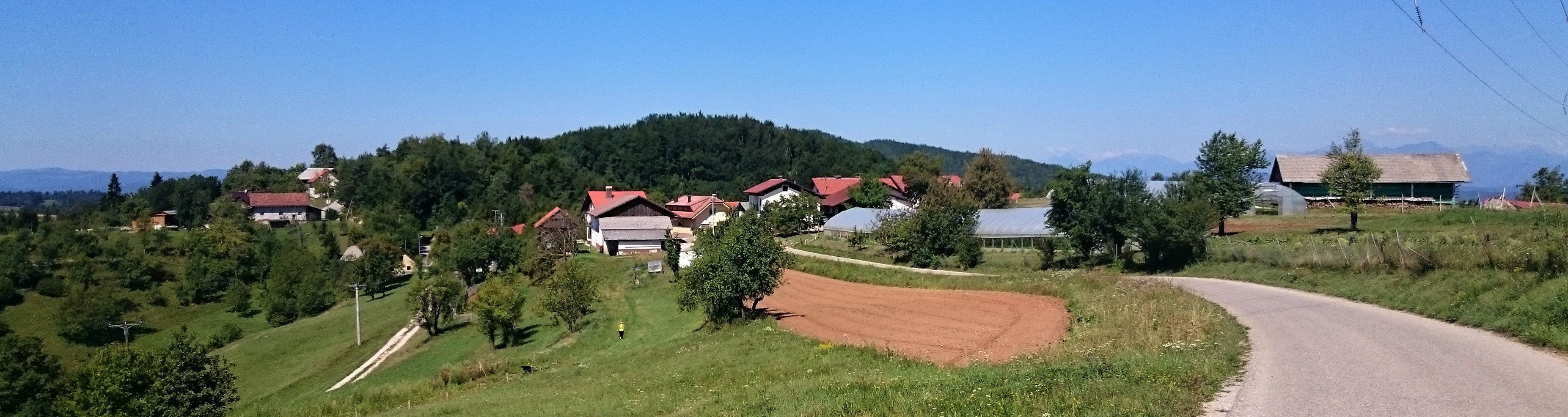 Repče, Slovenia